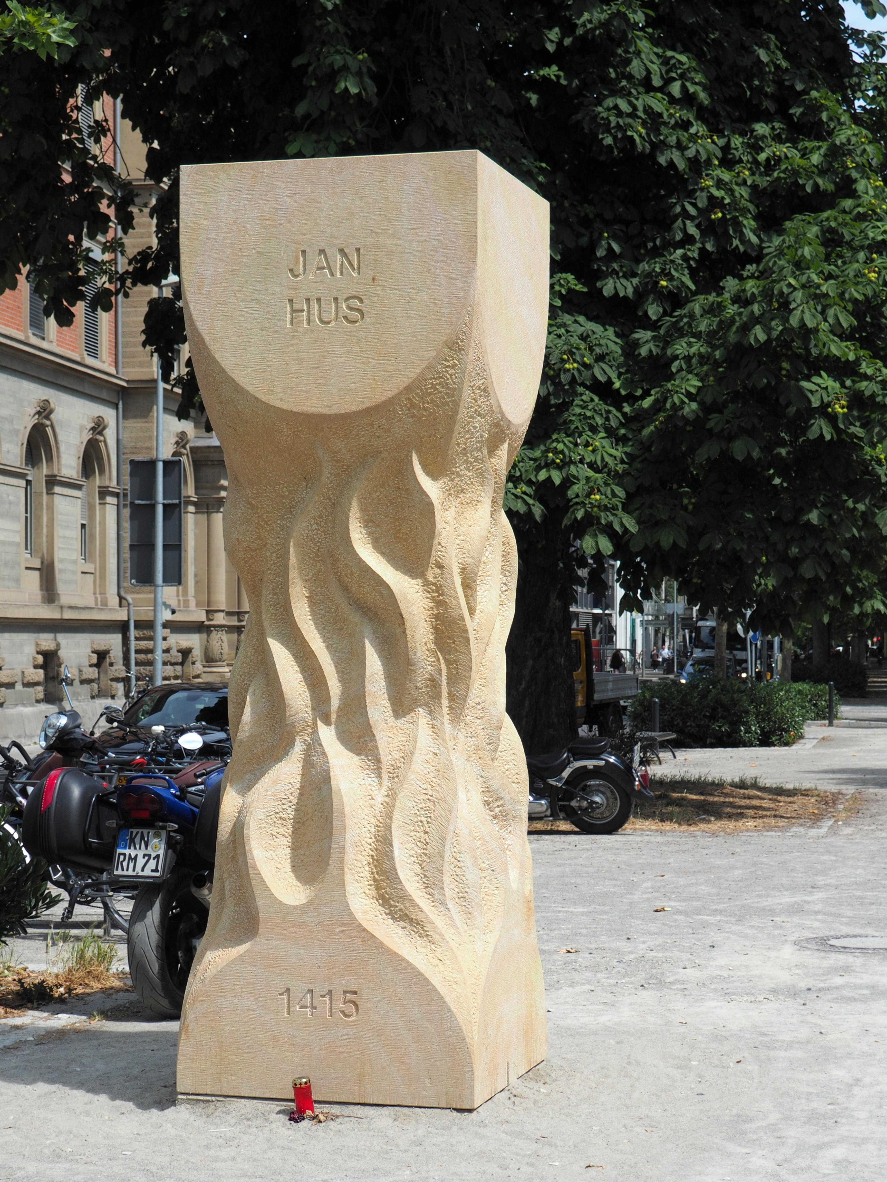 Monument Jan Hus - path of reconciliation, for the Bohemian reformer Jan Hus and his a friend and fellow Jerome of Prague in Konstanz. The monument by the Czech sculptor Adéla Kačabová from Hořice has the shape of a chalice in flames and stands in front of the Lutherkirche. The church stands on the way connecting Konstanz Cathedral (where on July 6, 1415, the death sentence on Jan Hus was spoken) with the place Jan Hus was burned at the stake. The monument was solemnly unveiled on July 6, 2015, the 600th date of death of Jan Hus.